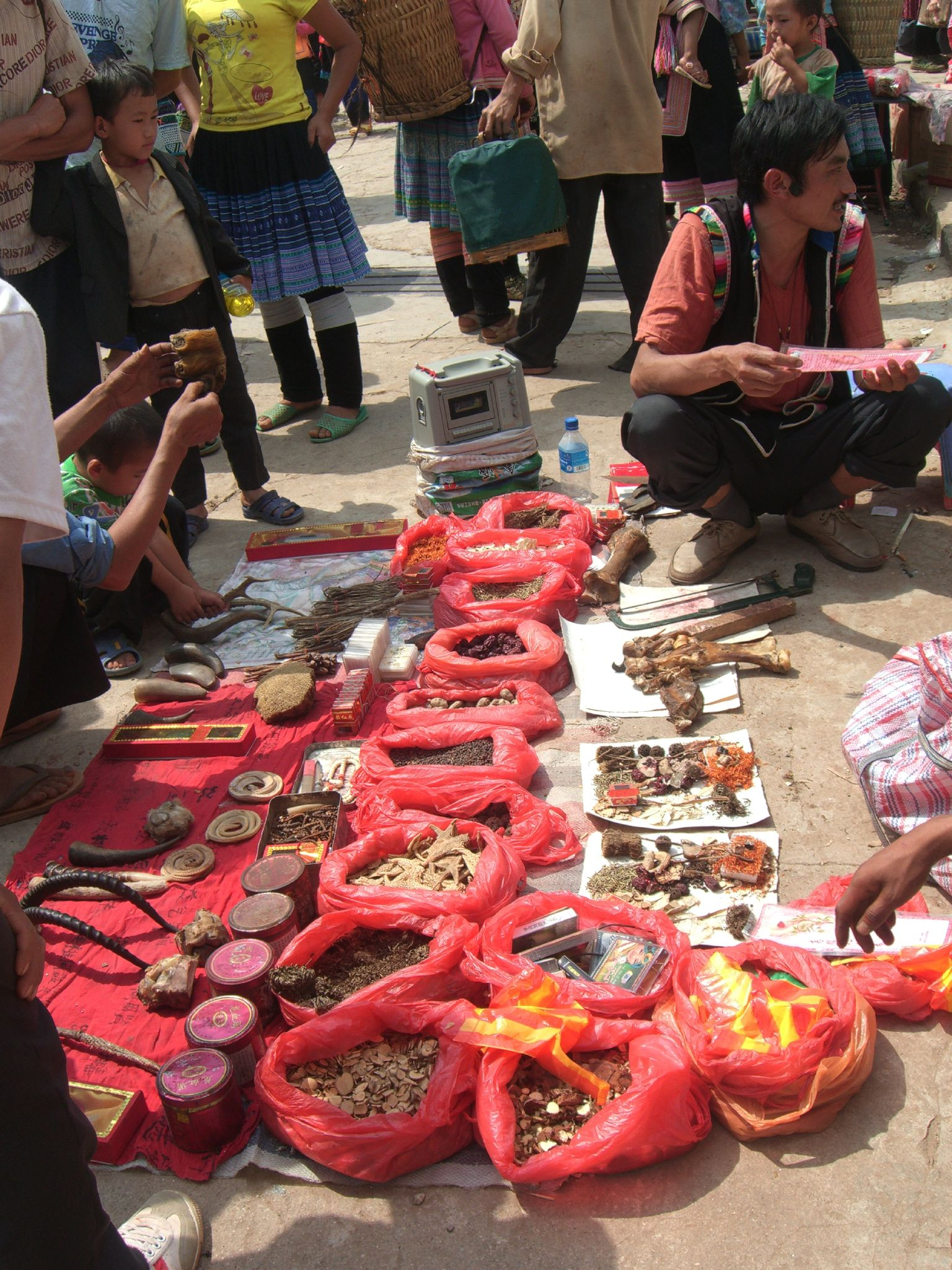 This is a photograph of illegal medicinal products being sold at the Laomeng market near Yuanyang county, China. Products include tiger claw, tiger penis and goat horns.